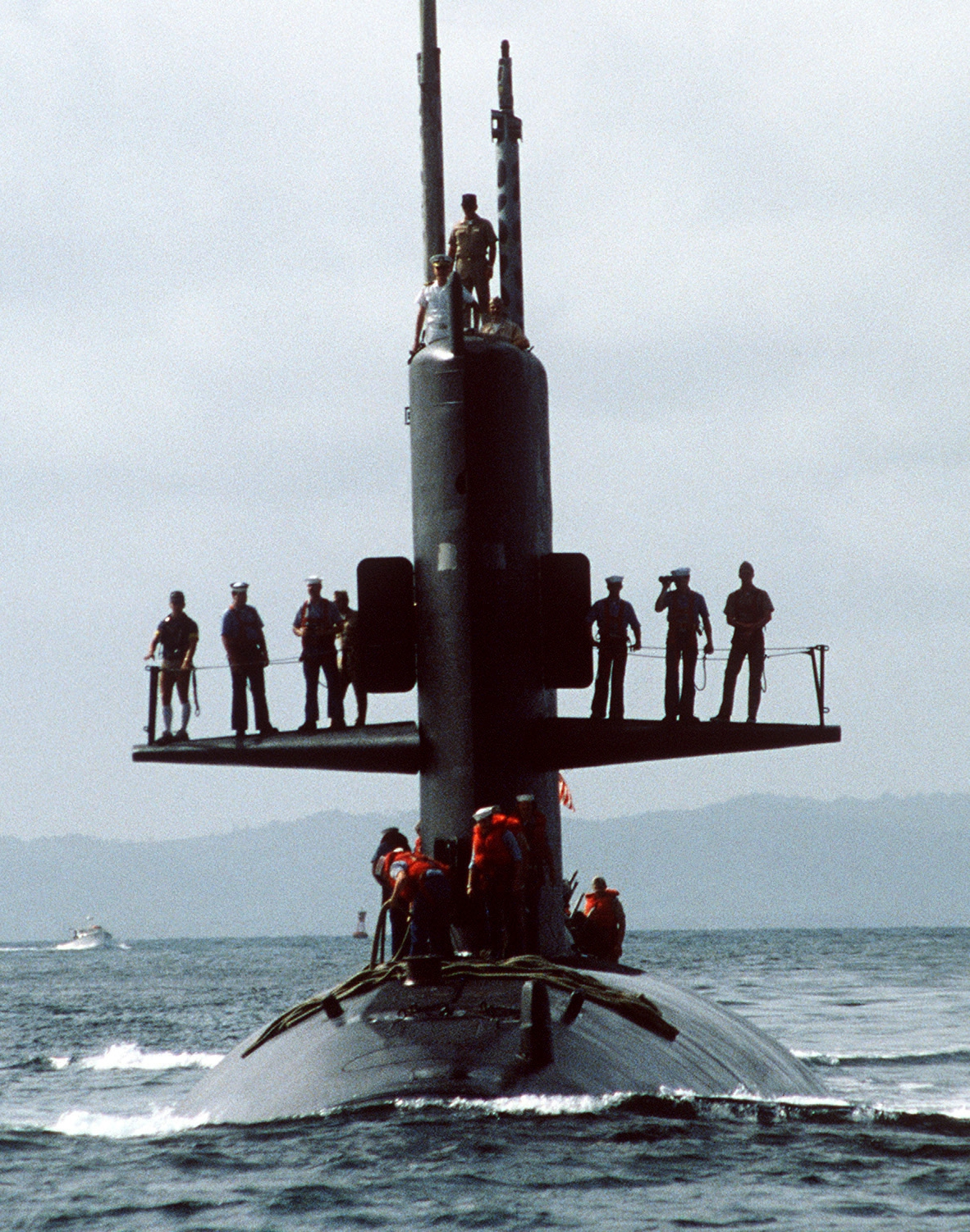 The nuclear-powered attack submarine USS SCAMP (SSN 588) arrives in port for the start of the joint US/South American Exercise UNITAS XXV. Location: ROOSEVELT ROADS, PUERTO RICO (PR) UNITED STATES OF AMERICA (USA) derivative work: Matrek